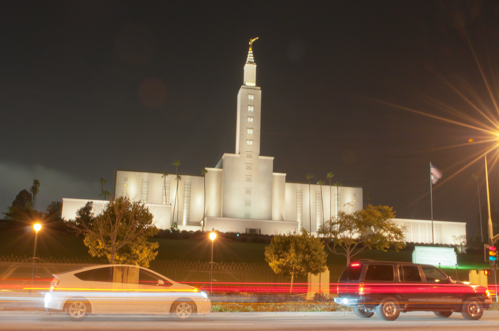 The Los Angeles California Temple of The Church of Jesus Christ of Latter-day Saints.